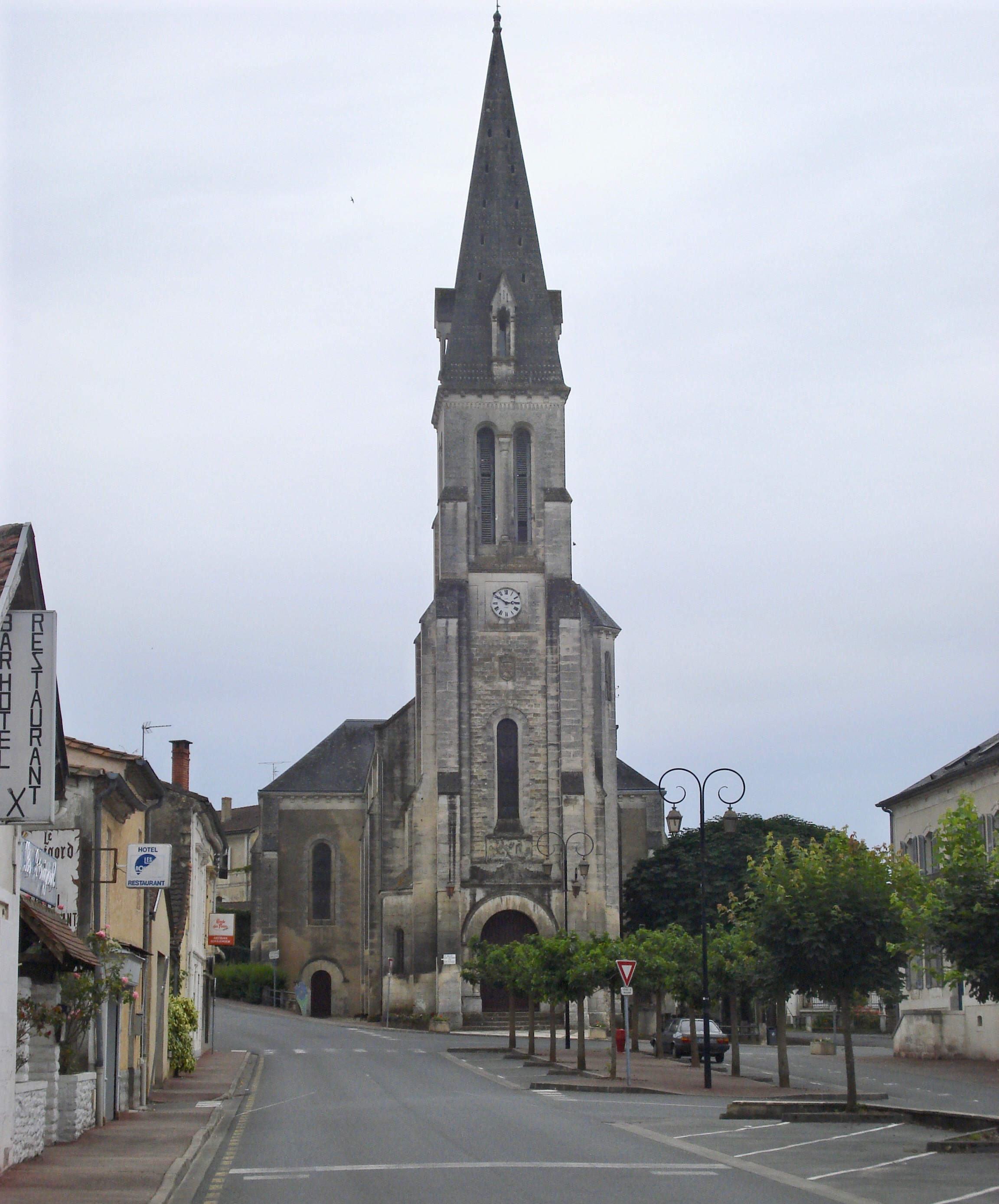 Mussidan (Dordogne, Fr), parish church